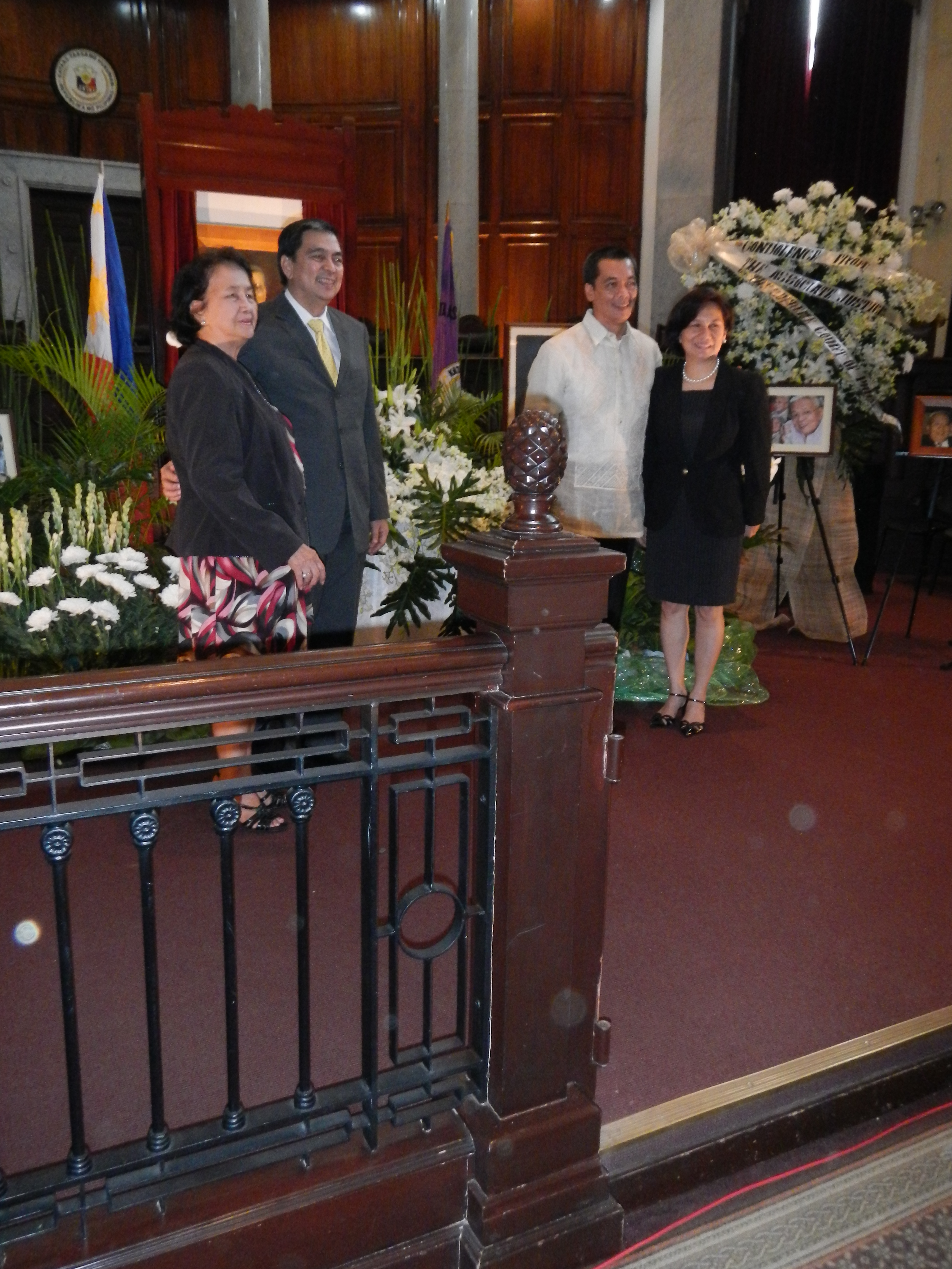 Upload Wizard photos of the - November 4, 2013, (exclusive for Wikipedia, Commons) Landmark, Historical - Supreme Court of the Philippines Eulogies [1] or Necrological service for - Andres Narvasa[2], (retired Chief Justice of the Supreme Court of the Philippines, 1991–1998 [3] [4] married to Janina Yuseco Ex-Chief Justice Narvasa given full honors at Supreme Court; Chief Justice [5] and Chief Justice Maria Lourdes Sereno[6] delivered Eulogies - responded by the Narvasa family, represented by Atty. Gregorio Narvasa II; Narvasa passed away last October 31, 2013, the 112th Associate Justice of the Supreme Court on April 11, 1986; became the 19th Chief Justice of the Philippines from Dec. 1, 1991 to Nov. 30, 1998; his cremated remains will be interred November 8, 2013 at the Our Lady of Mt. Carmel Shrine Parish Church, New Manila, in Quezon City.[7] - C justices pay tribute to ex-CJ Narvasa November 4, 2013 CJ Narvasa's remains arrive at SC with full honors SC justices pay tribute to ex-CJ Narvasa Chief Justice Maria Lourdes Sereno led other Justices' tribute at the Supreme Court on Monday, November 4.Ex-Chief Justice Narvasa honored in SC - attended by - Lucas Bersamin[8], Bienvenido L. Reyes[9], Mariano del Castillo [10] and Roberto A. Abad[11], Jose Perez, Bernardo P. Pardo[12], among others.SC honors late CJ Narvasa Binays pay tribute to ex-CJ Narvasa Website, Supreme Court of the Philippines (Ret.) Chief Justice Andres Narvasa, 84 - survived by his children Andres, Jr., Raymundo, Gregorio II, Socorro, Martin and Regina; his wife Janina Yuseco passed away after his retirement in 1998.